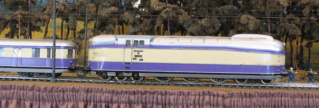 Scale 0 model of the locomotive built for Henschel-Wegmann-Zug in Transport museum Dresden